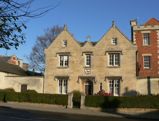 Carre's Grammar School, Sleaford This is one of the older buildings of a school that dates back over 400 years and now specialises as a sports college.